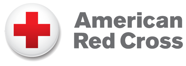 Logo of is humanitarian organization American Red Cross, established in 1881. The logo is part of a complex visual identity program that includes a wide range of applications.